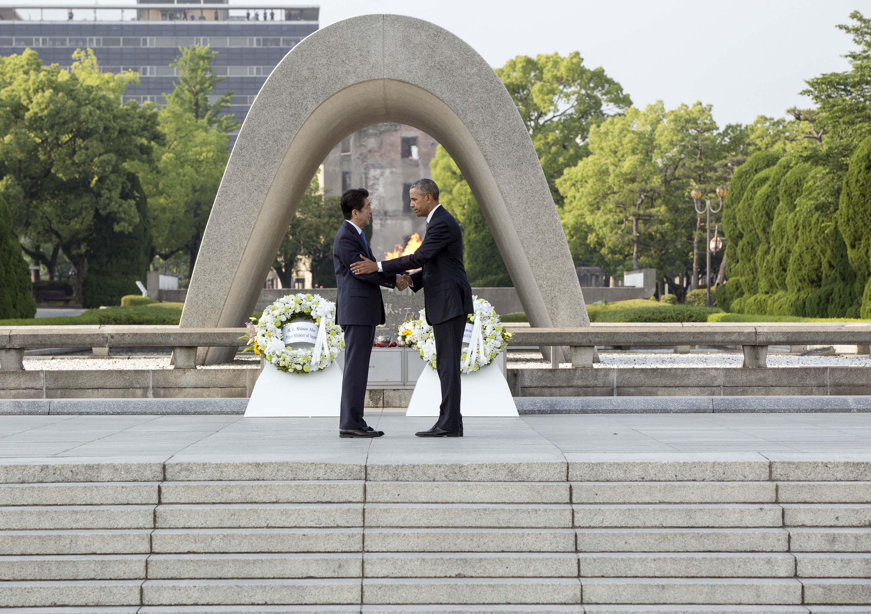 President Obama and Prime Minister Shinzo Abe of Japan shake hands after laying wreaths in a ceremony at the Hiroshima Peace Memorial in Hiroshima, Japan.